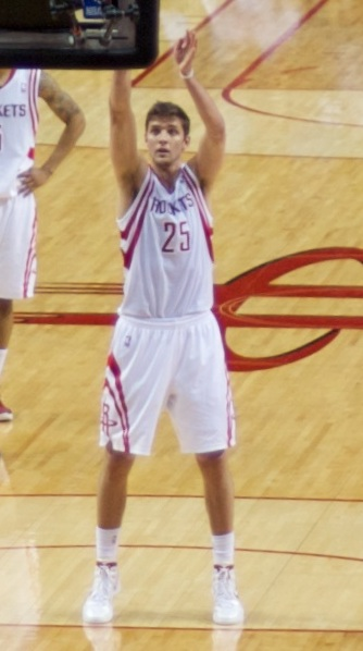 Chandler Parsons of the Houston Rockets attempts a free throw on March 26, 2012, in a game against the Sacramento Kings.